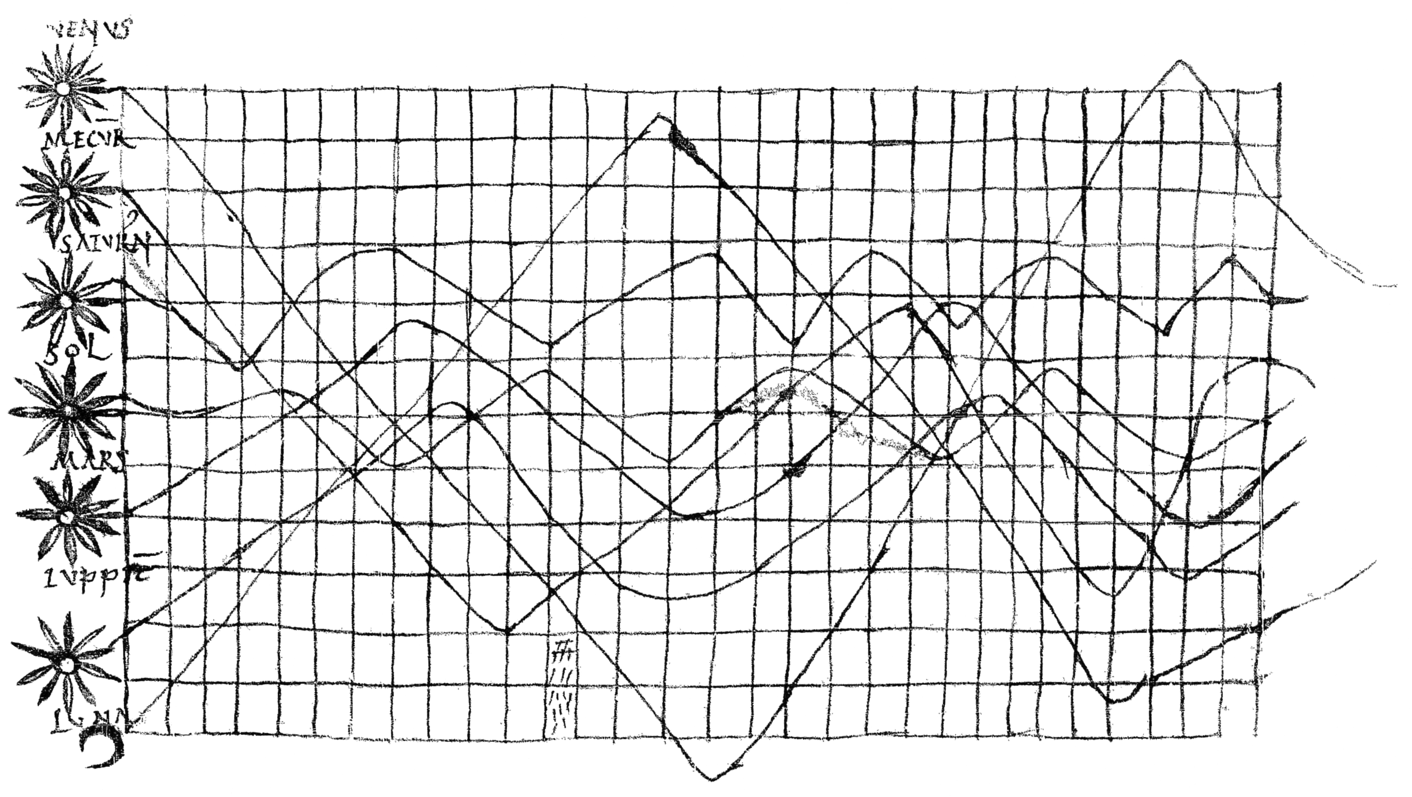 Planetary Movements, depicted as Cyclic Lines on a Spacial-Temporal Grid. In De cursu zodiacum (by Pliny?), given as an appendix to a copy of Macrobius' Commentary on Cicero's Somnium Scipionis (CLM 14436, a convolute of four mss. of the late 10th and early 11th century for use in monastery schools; substantial portions are written by one Hartwic) This is the earliest known 2-dimensional charts (plotting time vs. celestial latitude; an apparent anomaly is that it appears to show the celestial latitude of the sun varying with time); the scribe used horizontal and vertical lines as aids, resulting in a picture strikingly similar to modern graph paper as it did not become commonly used before the mid 19th century, some 700 years later. This picture is a notable anomaly, as the earliest comparable "graph" diagram do not emerge prior to the late medieval period, some 250 years after this drawing was made. The graph was first described by Günther (1877). Literature S. Günther, "Die Anfänge und Entwickelungsstadien des Coordinatenprincipes", Abhandlungen der naturhistorischen Gesellschaft zu Nürnberg VI (1877) p. 19 H. G. Funkhouser, "A note on a tenth century graph", Osiris 1 (1936), 260-262. James R. Beniger and Dorothy L. Robyn (1978). "Quantitative graphics in statistics: A brief history", The American Statistician 32 (1978), 1–11.